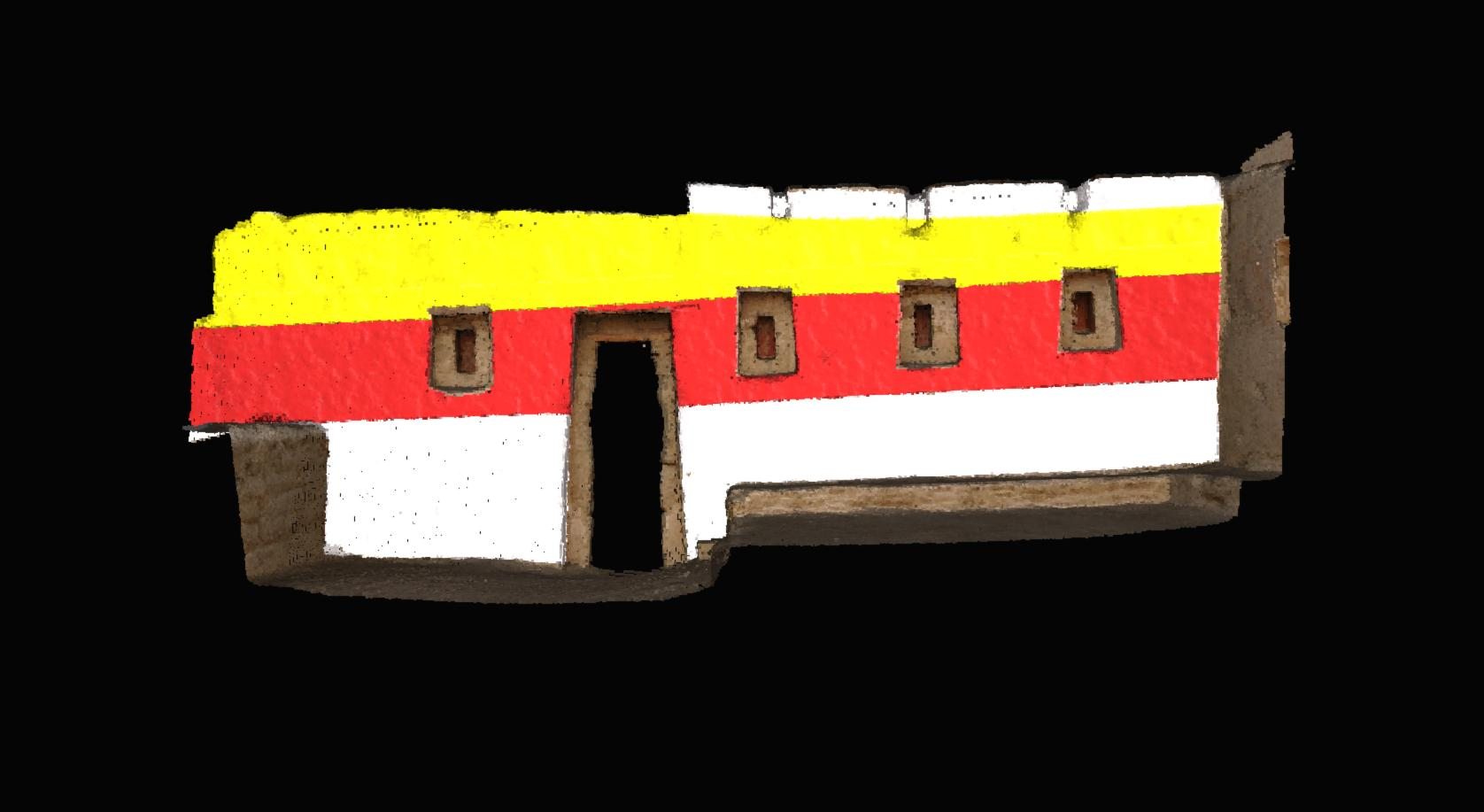 Reconstruction of painting on walls of Room 42, Tambo Colorado, adapted from a photo-textured laser scan. Thanks to favorable environmental conditions, many walls at Tambo Colorado, both internal and external, retain enough residual colored paint to accurately reconstruct what the original wall painting would have been like. Color here was often applied in horizontal strips of red, black, white, and yellow ochre atop stucco, and variation in color would accentuate architectural features such as niches. Room 42, the third court encountered from the entrance of the Northern Palace structure, contains niches of two recesses and distinct painting.